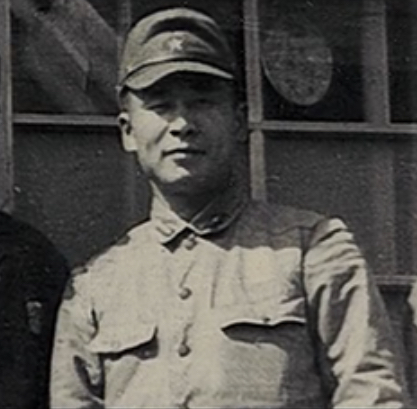 Photo from film